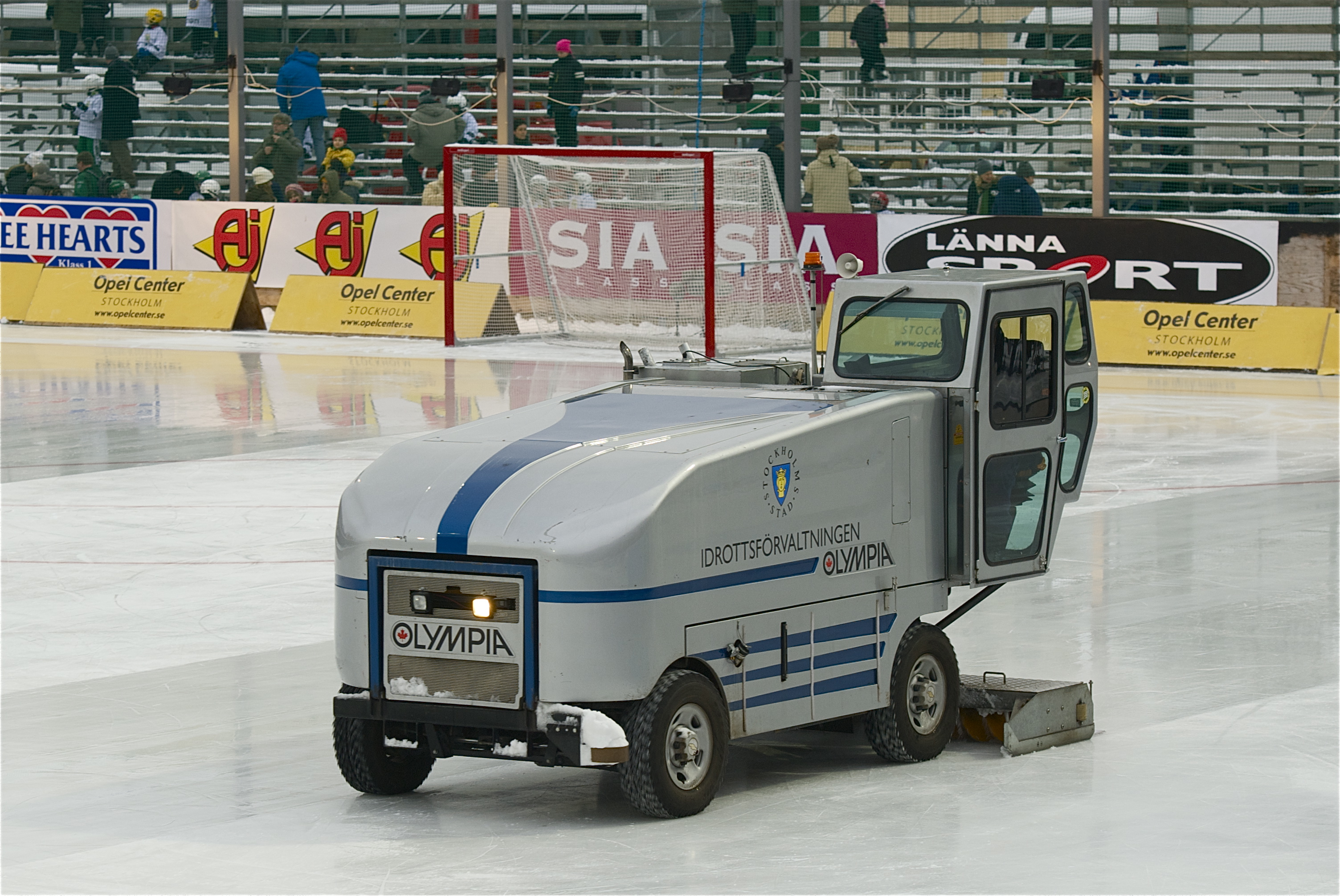 Olympia Ice resurfacer. Match between Hammarby and GAIS Elitserien, Zinkendamms IP (Stockholm) 2012-02-11.